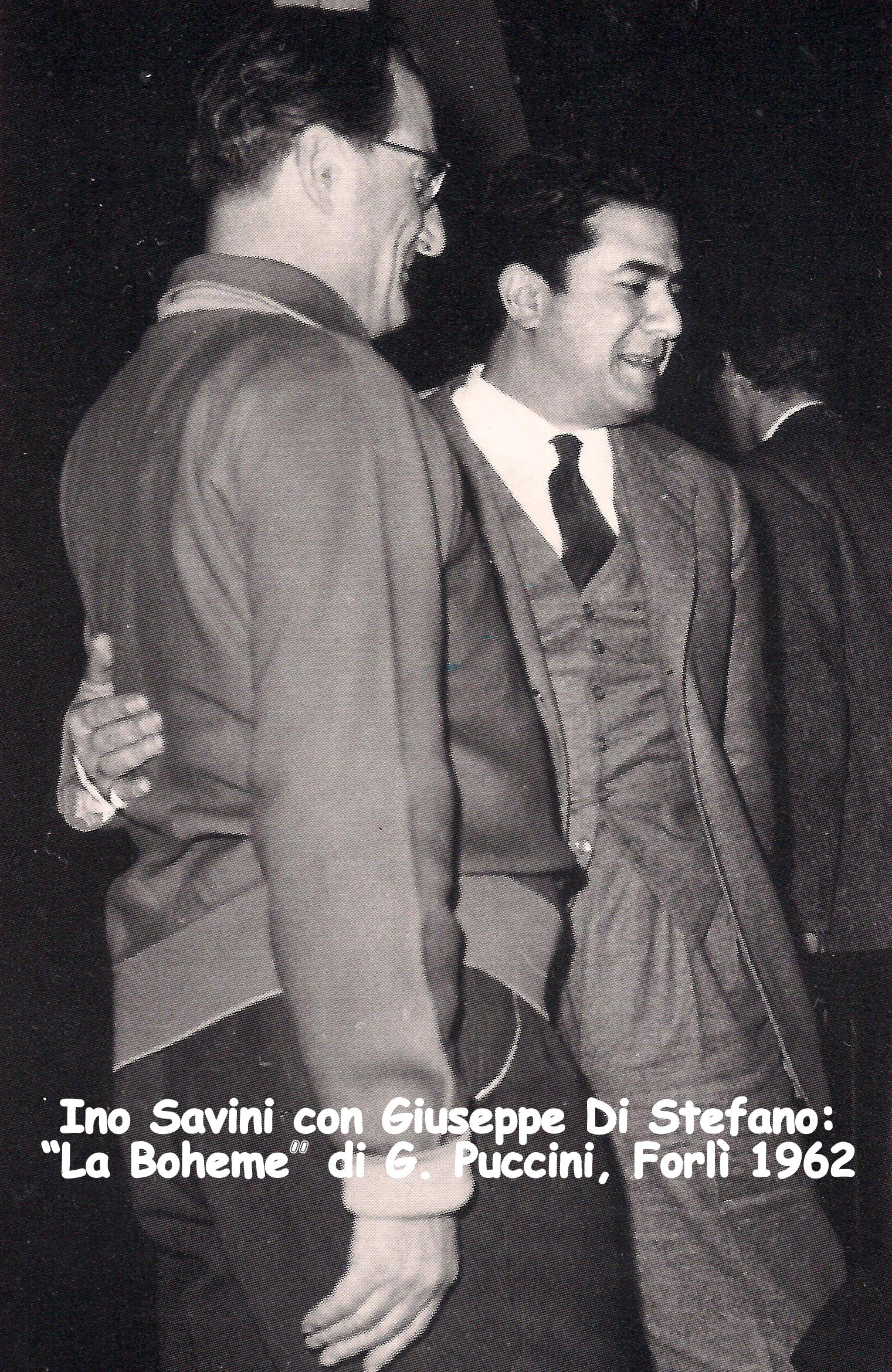 Conductor Ino Savini and tenor Giuseppe di Stefanoː "La Bohème" by G. Puccini - Forlì (I) 1962-12-04